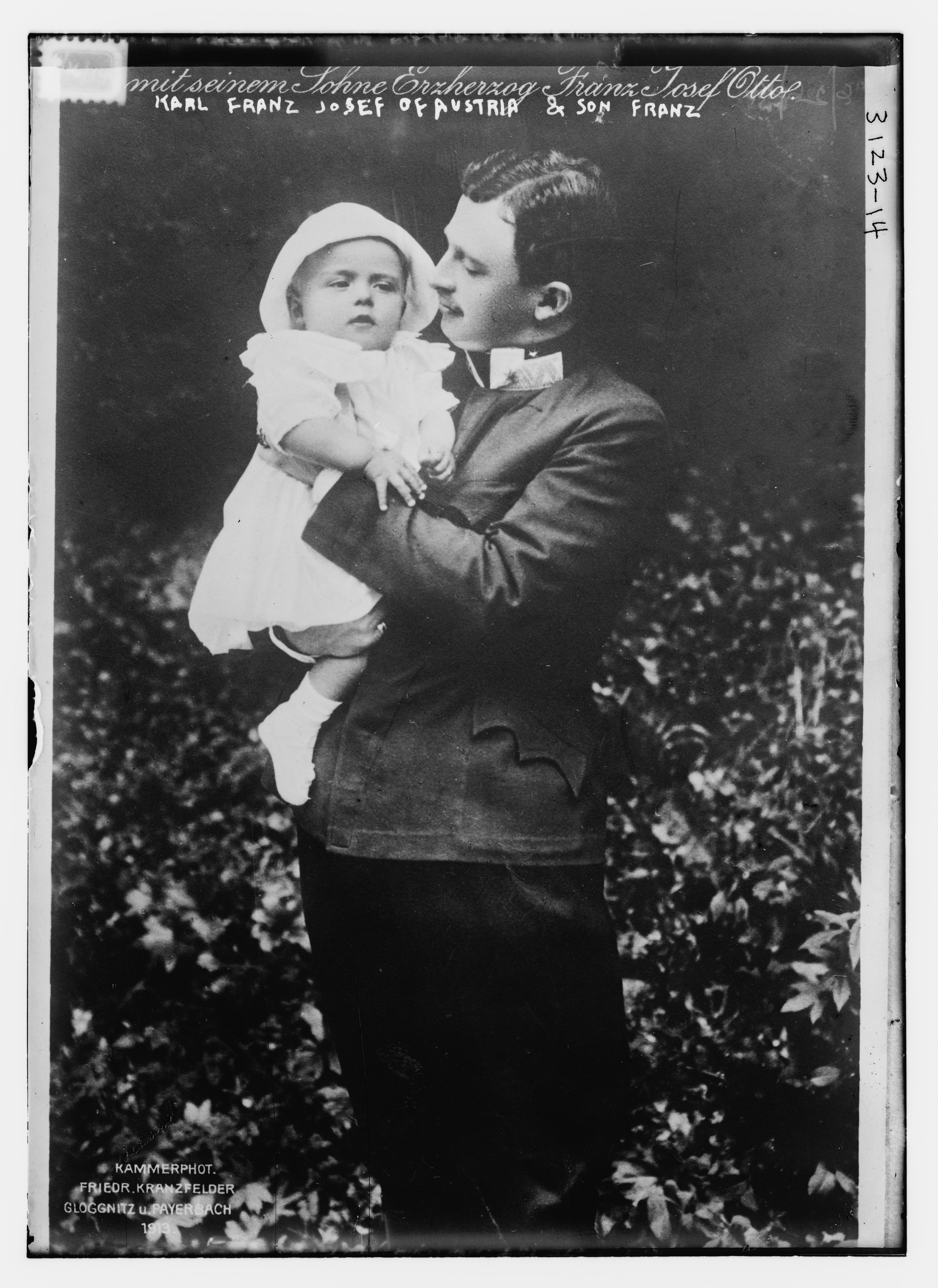 Title: Karl Franz Josef of Austria & son Franz Abstract/medium: 1 negative : glass ; 5 x 7 in. or smaller.